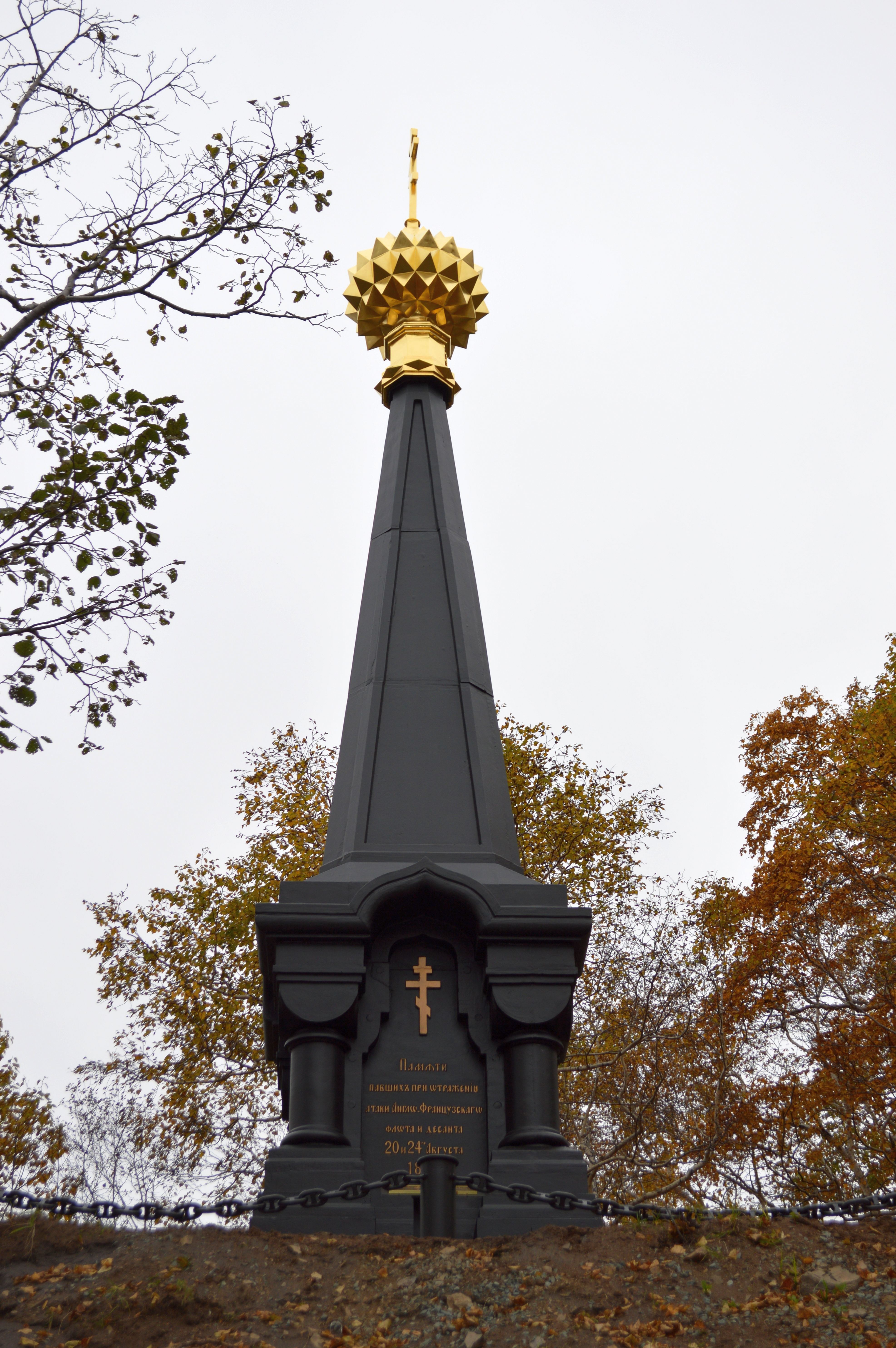 Monument to the defenders of Petropavlovsk (now Petropavlovsk-Kamchatsky), who fell in the defense of the city from the attack of the Anglo-French squadron and landing in 1855. Established in 1881. It is a historical monument, a cultural object of Federal significance.